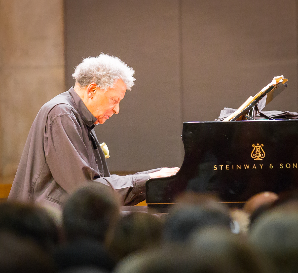 Abdullah Ibrahim at the stage of the University Aula. The concert was part of the Oslo Jazzfestival in Norway and took place on 16. August 2016. Lineup:Abdullah Ibrahim (piano)